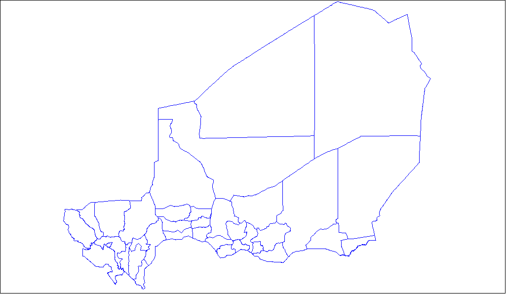 This map has been uploaded by Electionworld from to enable the Wikimedia Atlas of the World . Original uploader to was Rarelibra, known as Rarelibra at . Electionworld is not the creator of this map. Licensing information is below. Map of the arrondissements of Niger. Created by Rarelibra 16:13, 27 April 2006 (UTC) for public domain use. Created using MapInfo Professional v7.5 and various mapping resources.